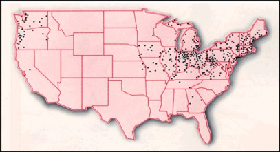 Map of United States indicating cities and towns with combined sewer systems. "Combined sewer systems serve roughly 772 communities containing about 40 million people."